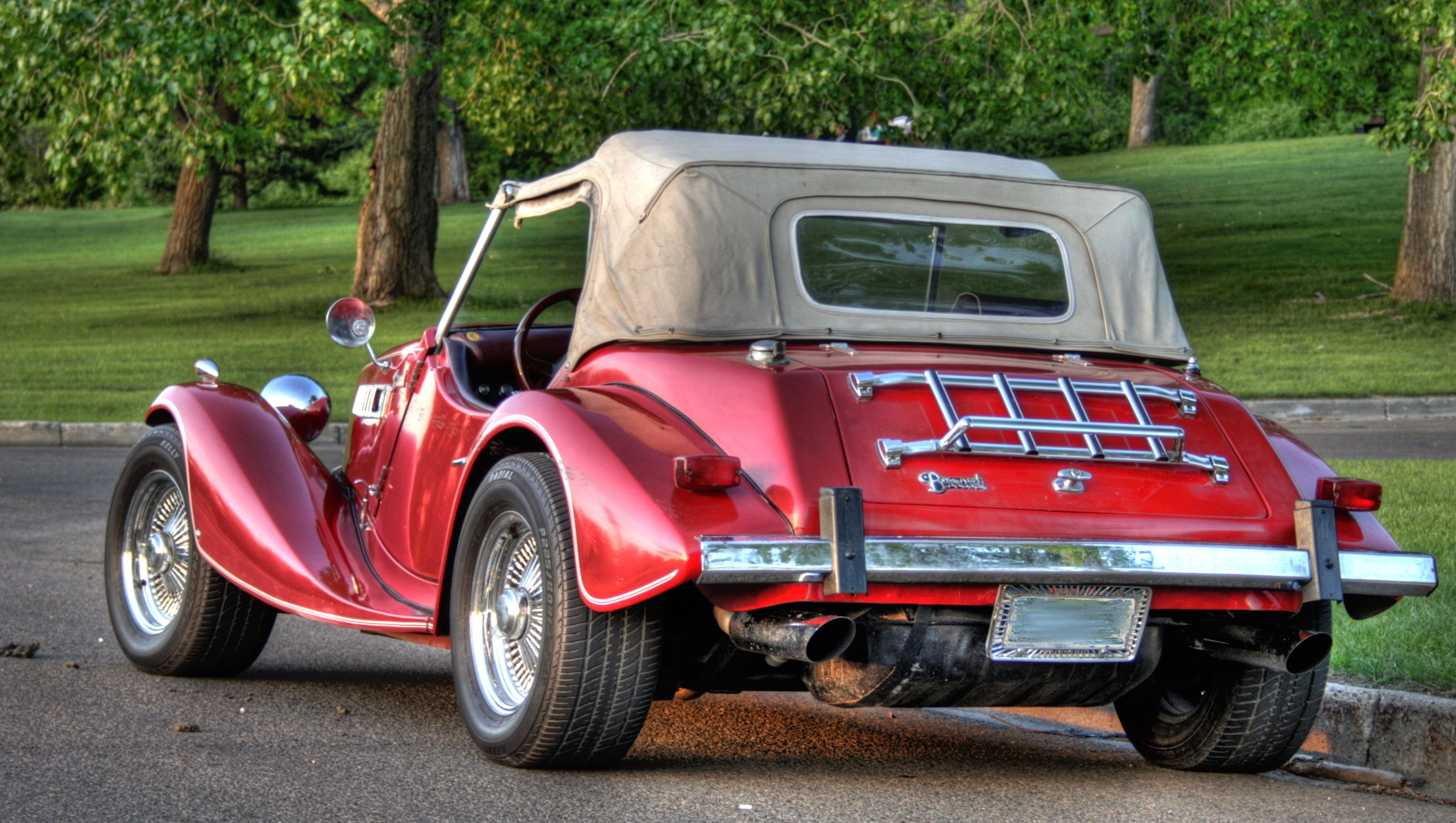 Rear three-quarter view of a 1988 Blakely Bernardi.